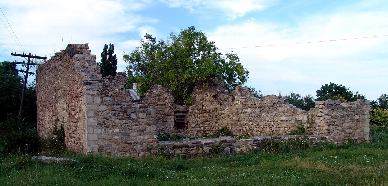 Ruins of Baibars' Mosque in Eski Qirim